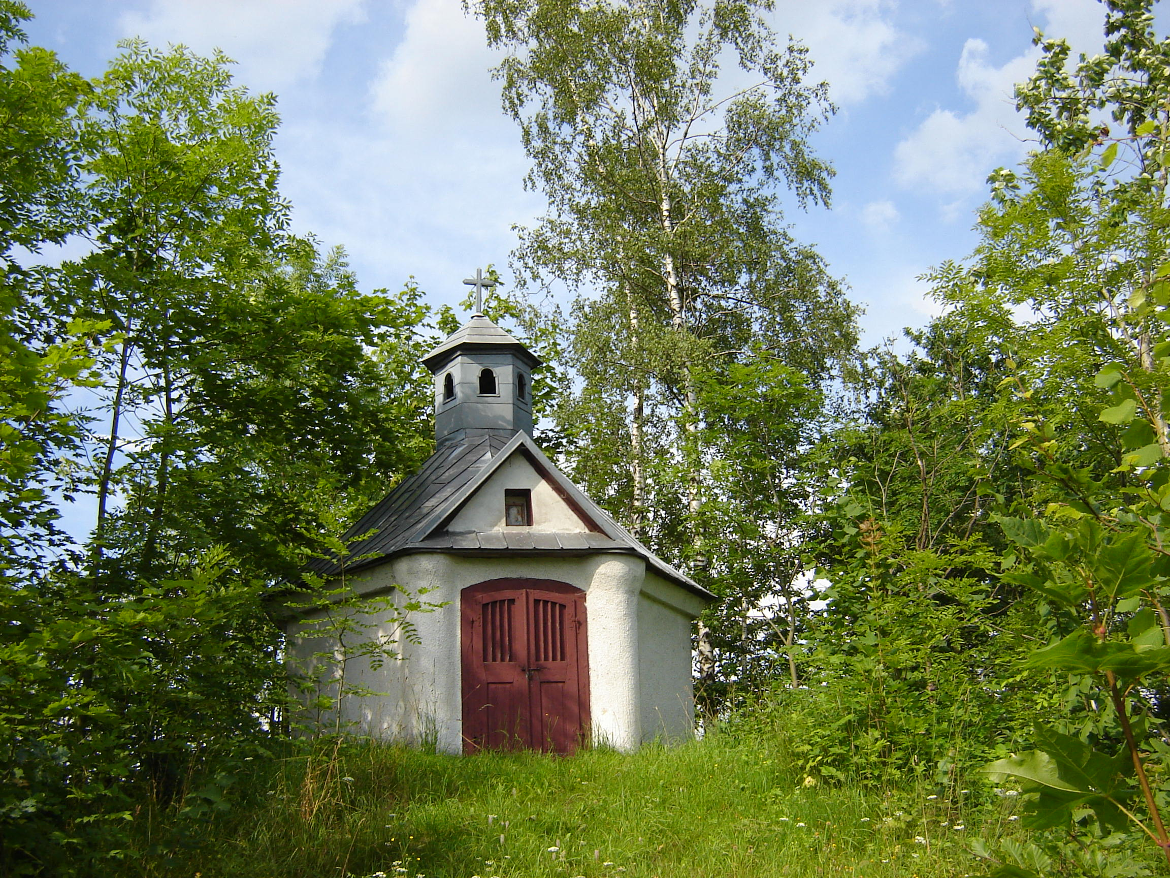 Chapel of St. Joseph, mound, forest stand.